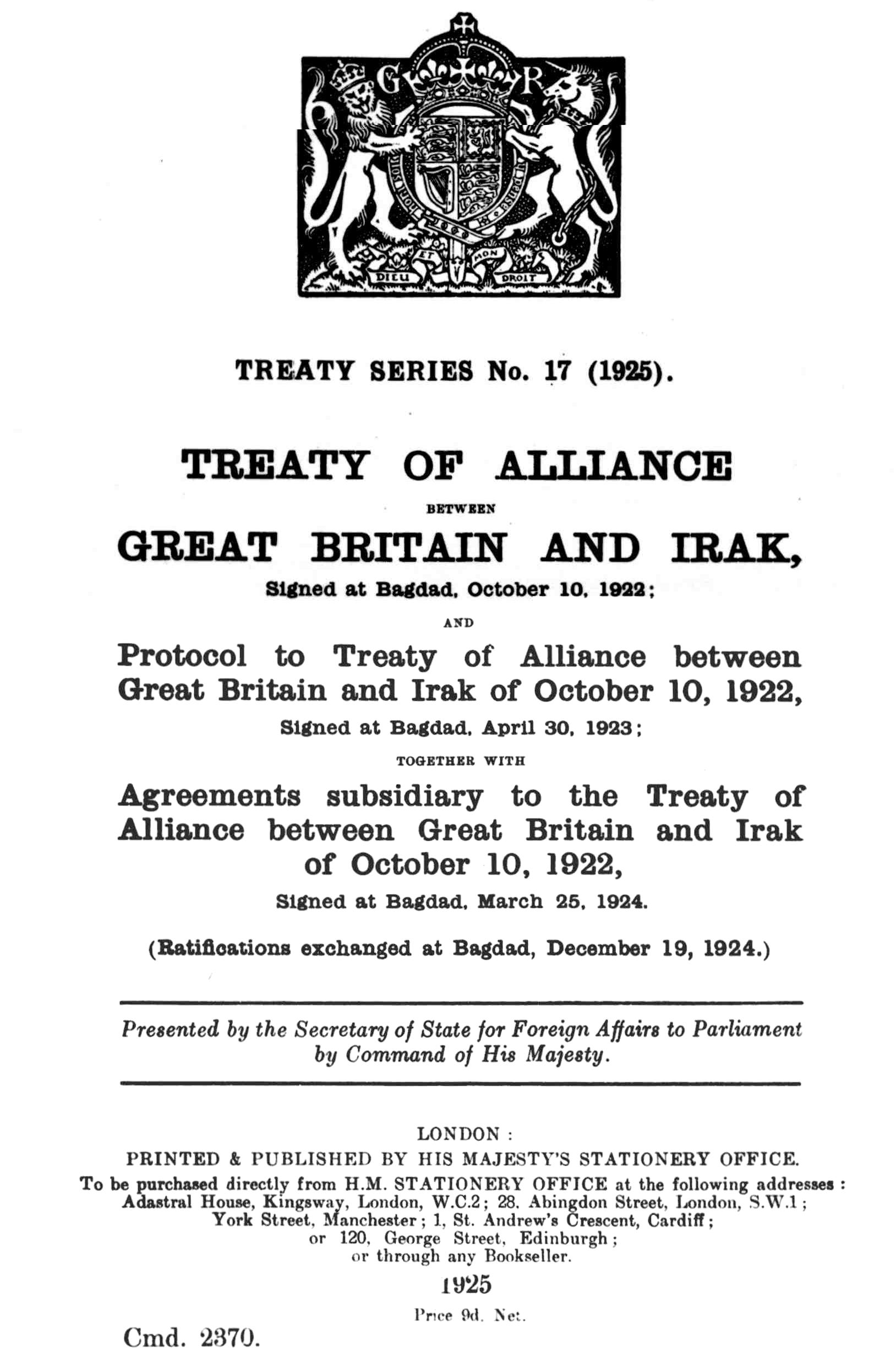 Anglo Iraq Treaty 1922. United Kingdom Crown copyright and Parliamentary copyright has a lifespan of 50 years